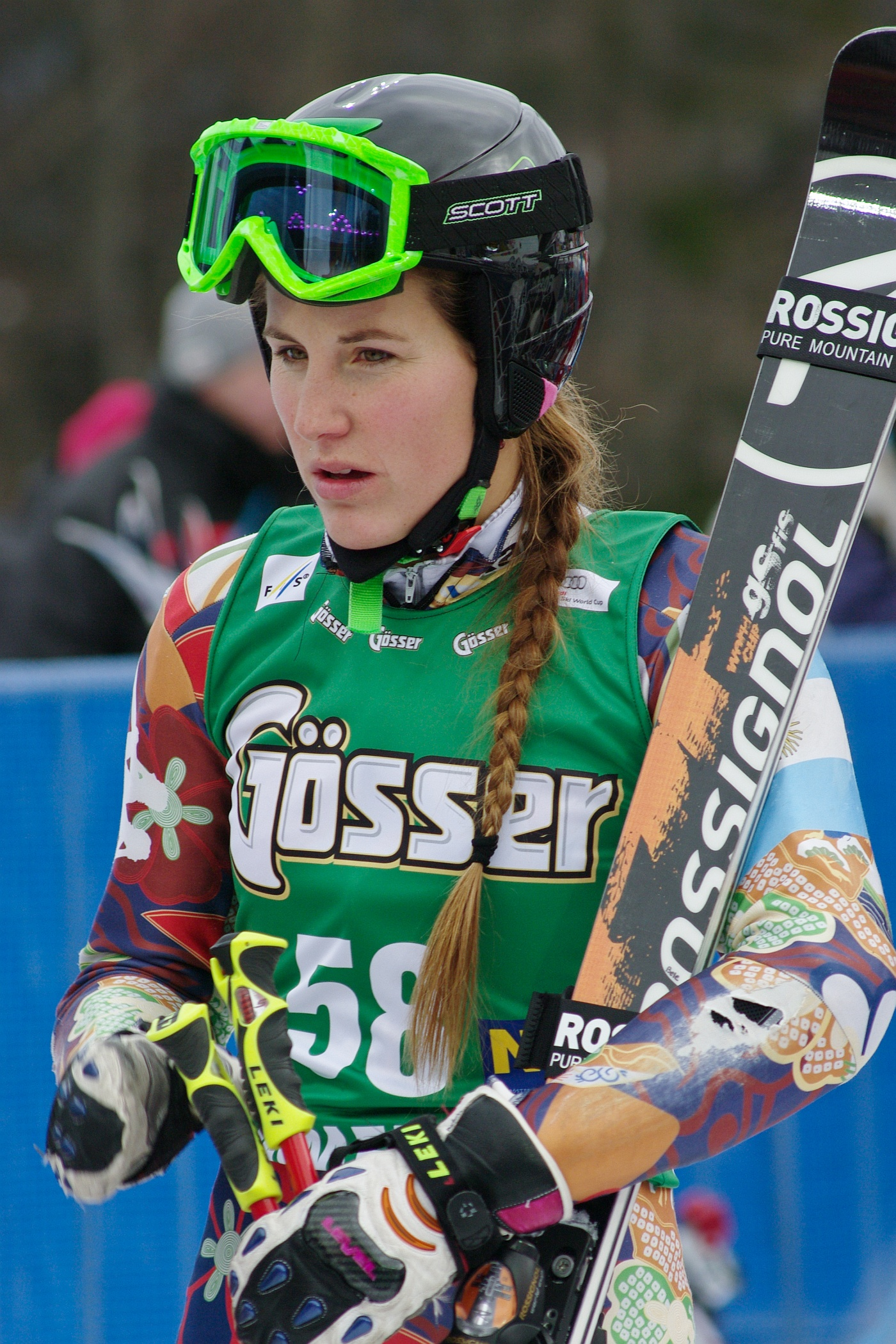 Argentinian alpine skier María Belén Simari Birkner after the first run of the Giant Slalom in Semmering (Austria) on 28 December 2010.